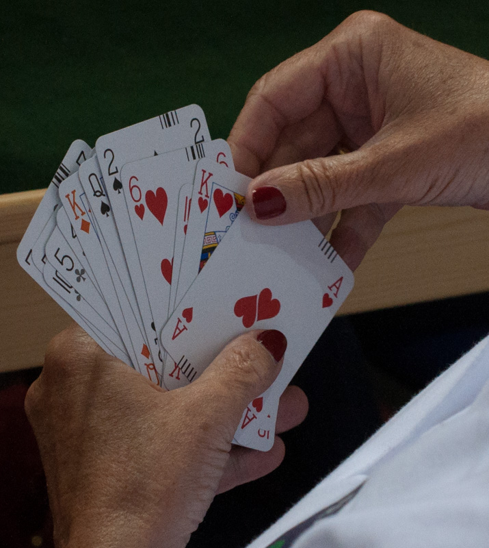 Sorting the cards